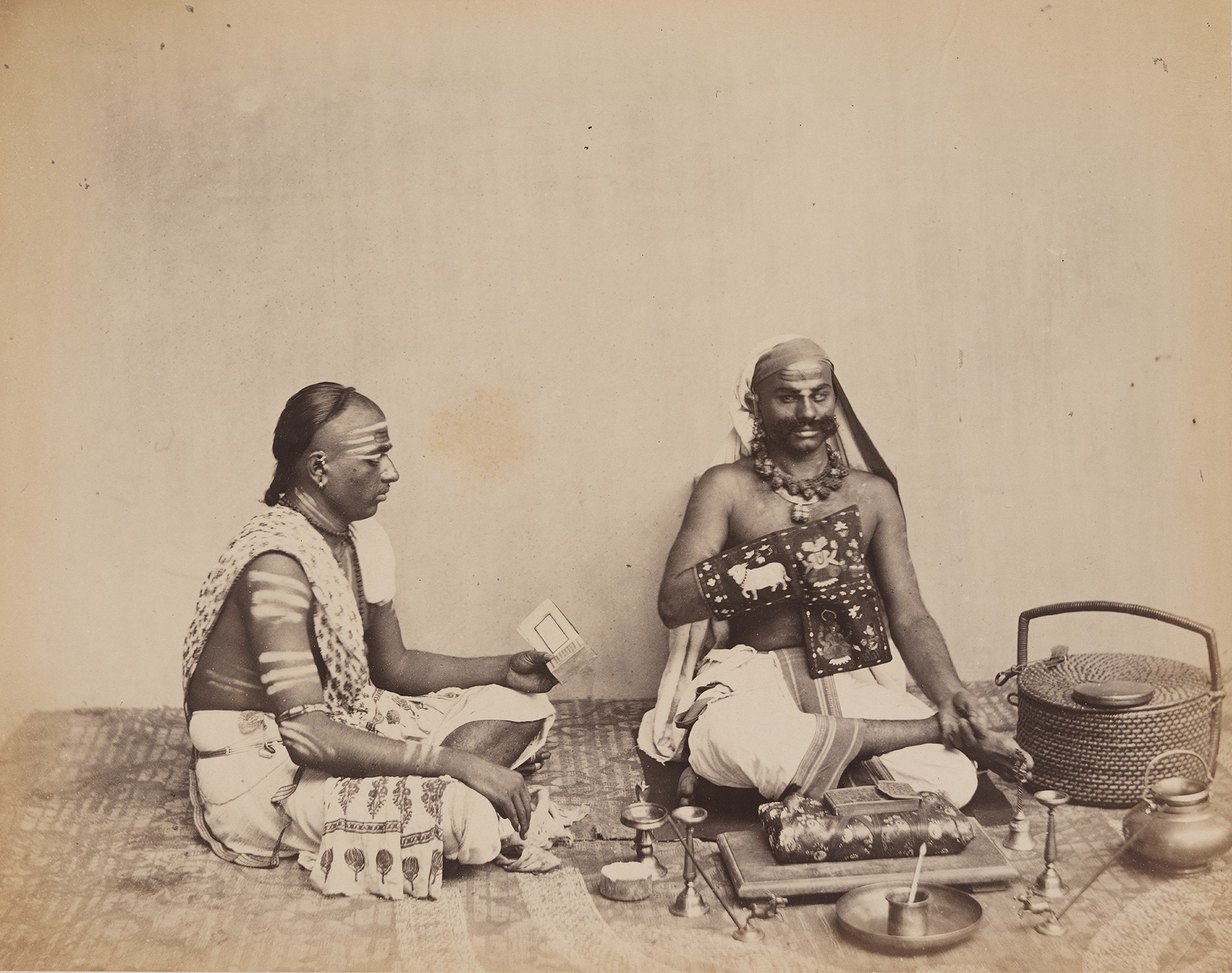 Title: Smarth Brahmins Alternative Title: [Smartha Brahmins] Creator: Johnson, William Date: ca. 1855-1862 Part Of: Photographs of Western India Series: Photographs of Western India. Volume I. Costumes and Characters. Place: India Physical Description: 1 photographic print: albumen; 20 x 26 cm on 35 x 42 cm mount File: vault_ag2002_1407x_1_004_smarth_opt.jpg Rights: Please cite Southern Methodist University, Central University Libraries, DeGolyer Library when using this image file. A high-quality version of this file may be obtained for a fee by contacting . For more information, see: View Europe, India, and Asia: Photographs, Manuscripts, and Imprints